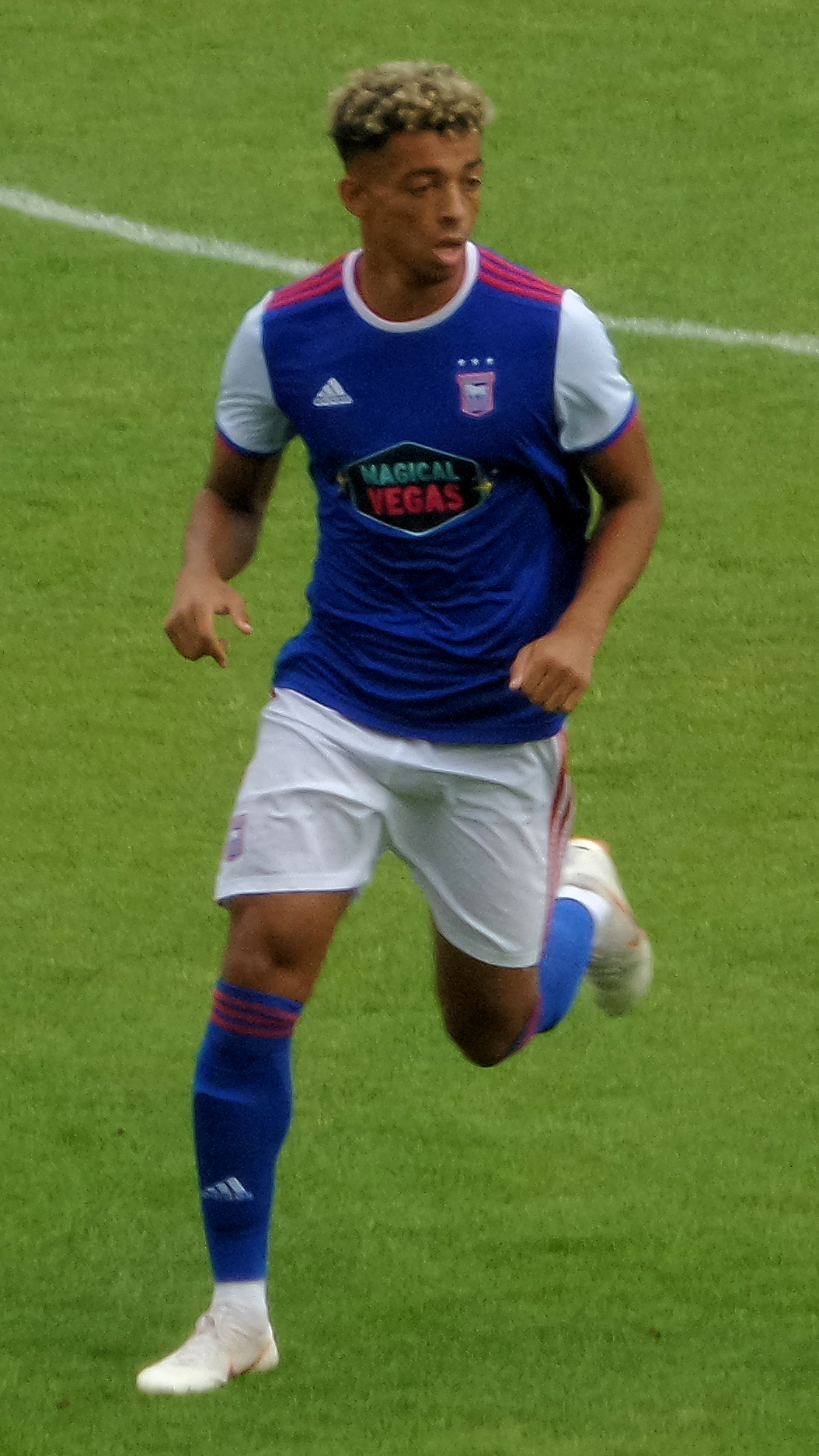 Ben Folami playing for Ipswich Town at Barnet on 21 July 2018